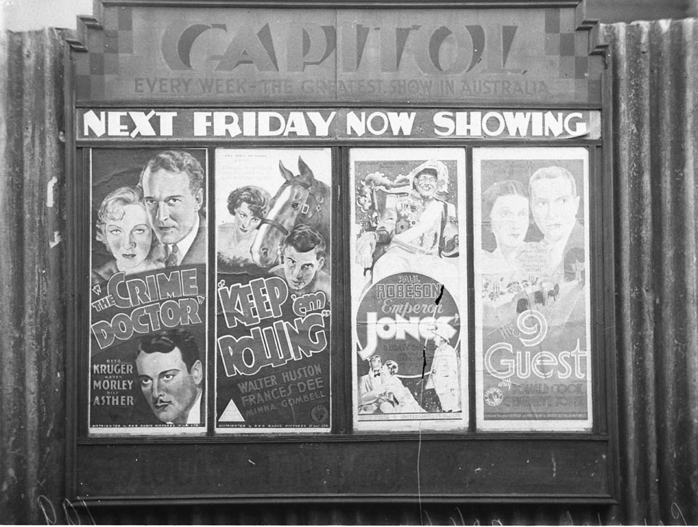 Otto Kruger, Karen Morley and Nils Asther in The Crime Doctor (1934), Walter Huston, Frances Dee and Minna Gombell in Keep 'em Rolling (1934), The Emperor Jones (1933), and The Ninth Guest (1933), Capitol Theatre posters